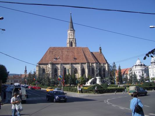 Catholic Cathedral, Cluj-Napoca, Romania